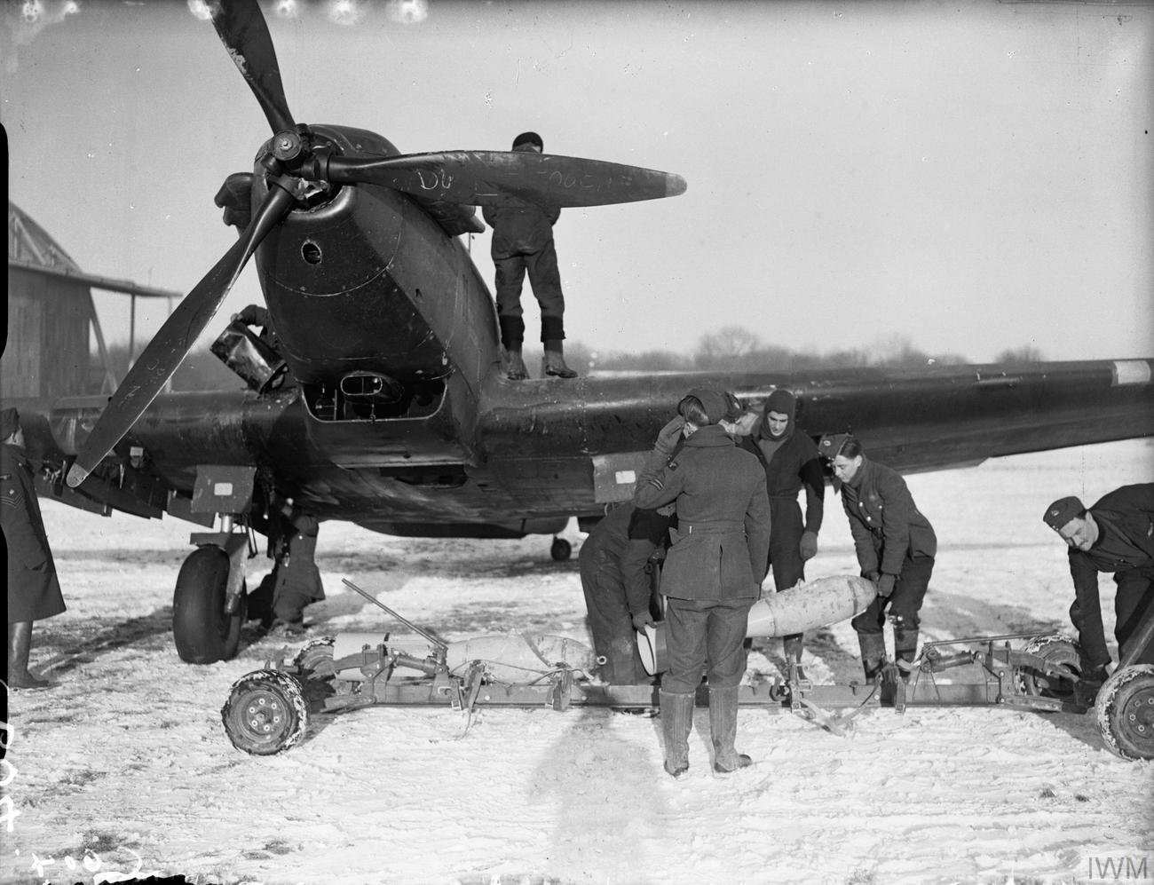 Royal Air Force- France 1939-1940. Armourers unloading 250-lb GP bombs from a trolley in front of a Fairey Battle of No. 226 Squadron, in the snow at Reims-Champagne.